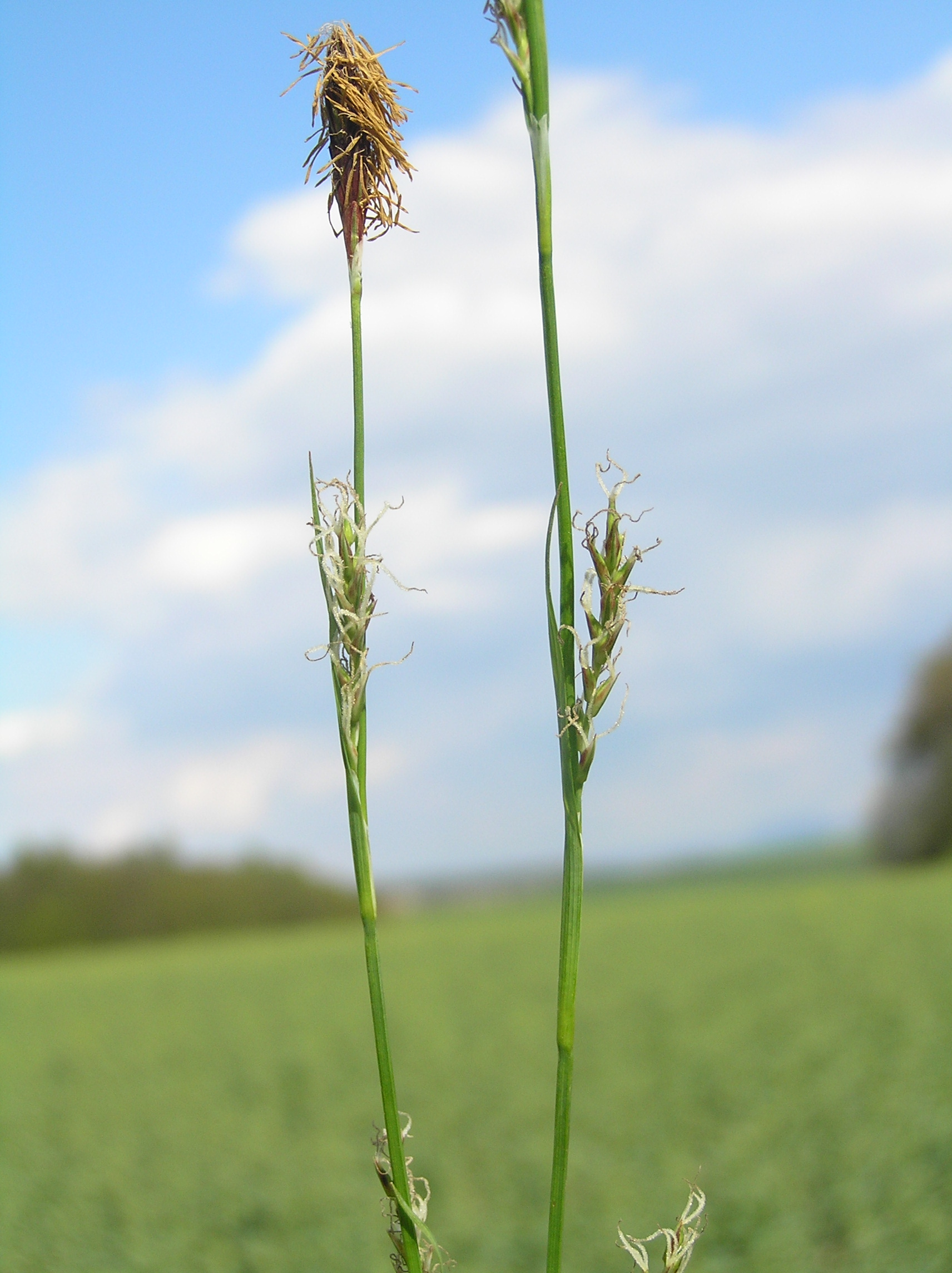 Carex pilosa, Dřevohostice, Czech Republic